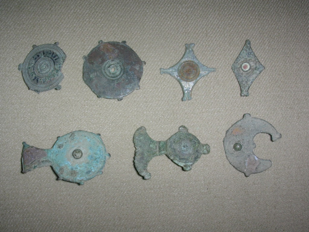 Roman Era Plate Fibulae (Clockwise from top left.) Disc Plate Fibula with niello decoration. Roman. Late 1st c. CE. (Damaged.) Disc Plate Fibula. Roman. 1st c. CE. (Missing stone.) Cruciform Plate Fibula. Roman. Mid- to Late 1st c. CE. Diamond Plate Fibula with white stone. Roman. 1st c. CE. Lunullar Plate Fibula. Roman. Late 1st c. CE. Split-tail Disc Plate Fibula. Roman. Late 1st - early 2nd c. CE. Fantail Disc Plate Fibula with stone. Roman. Late 1st c. CE.